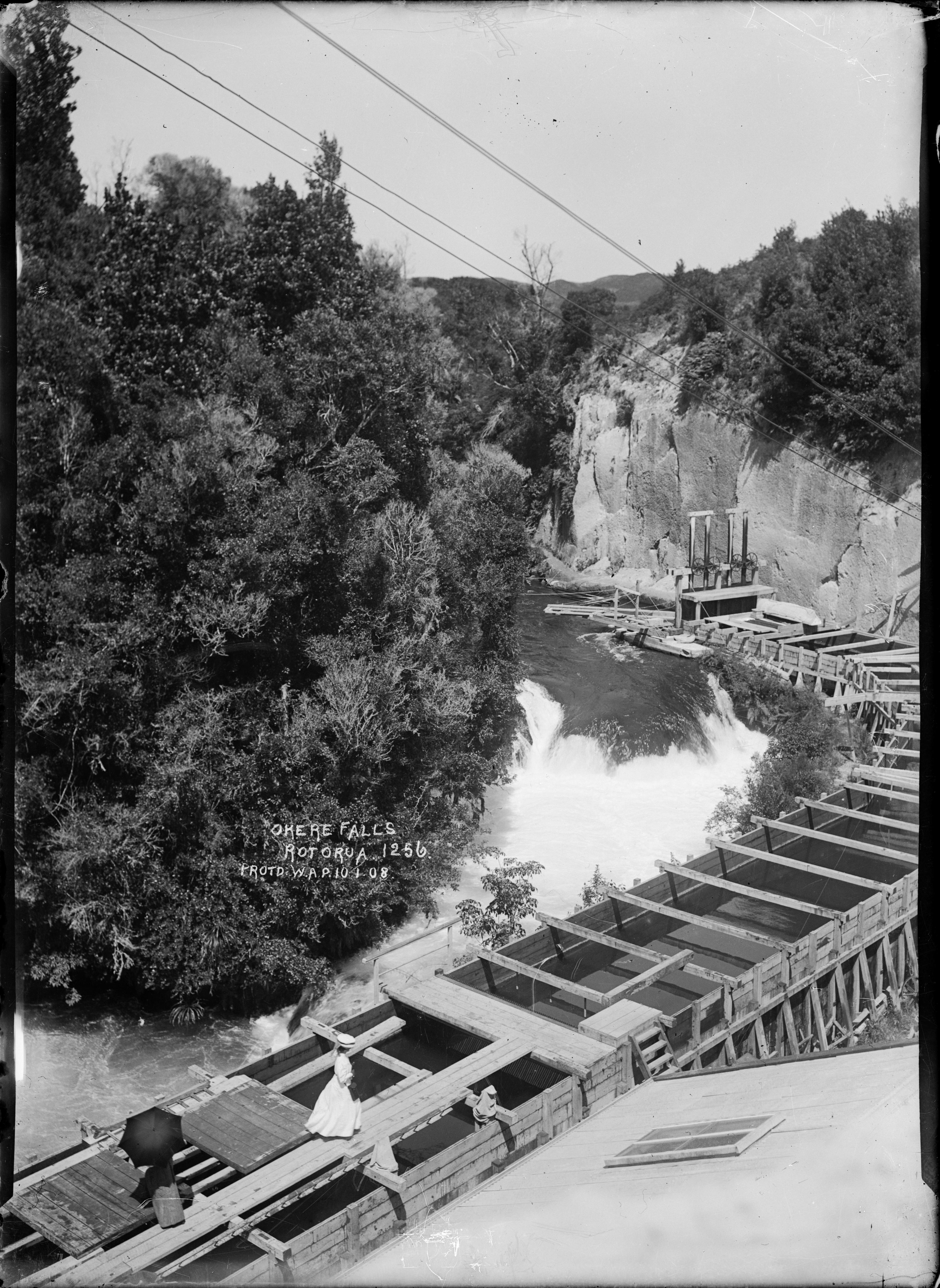 Two women sightseers standing on a broadwalk on top of the diversion weir at the site of the power station at Okere Falls on the Kaituna River. Photograph taken by William A Price ca 1908 looking upstream and down at the weir and waterfall from a vantage point above the power house. Inscriptions: Inscribed - Photographer's title on negative -centre left: Okere Falls. Rotorua. 1256. Protd. W.A.P. 10.1.08. Quantity: 1 b&w original negative(s). Physical Description: Dry plate glass negative 4.75 x 6.5 inches Power station at Okere Falls, Rotorua District. Price, William Archer, 1866-1948 :Collection of post card negatives. Ref: 1/2-001464-G. Alexander Turnbull Library, Wellington, New Zealand.